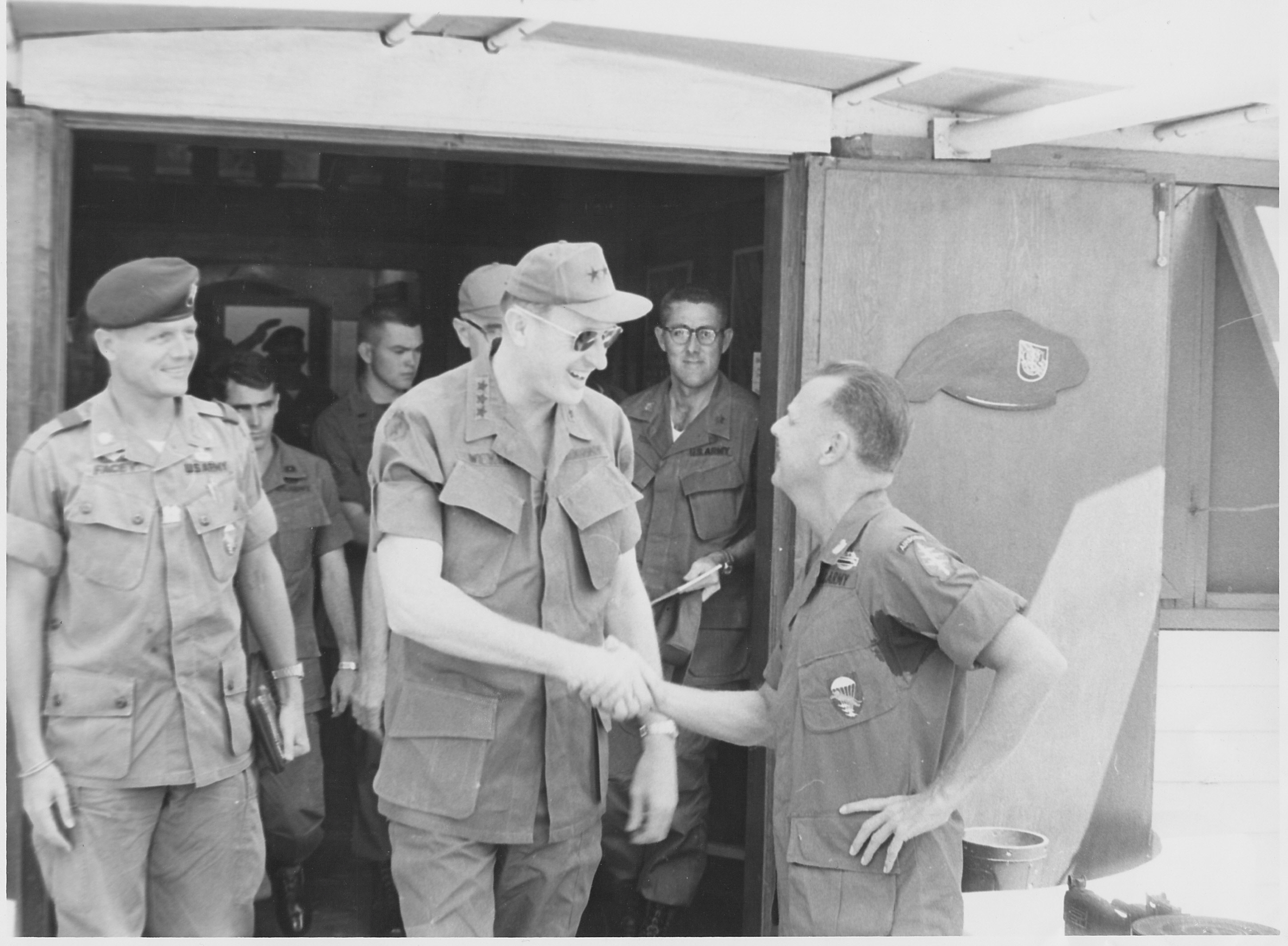 LTG Frederick Weyand coming from Paris Peace Talks, stops in South Vietnam for update briefings. Here he is greeted by an old friend from the Korean War, CWO4 Leo Meyer HQ 5th SFG(A) S2 Collections Officer. To the Left is LTC Kenneth Facey, 5th Grp DCO. Behind LTG Weyand is BG James Kalergis, First Field Force's Chief of Staff.